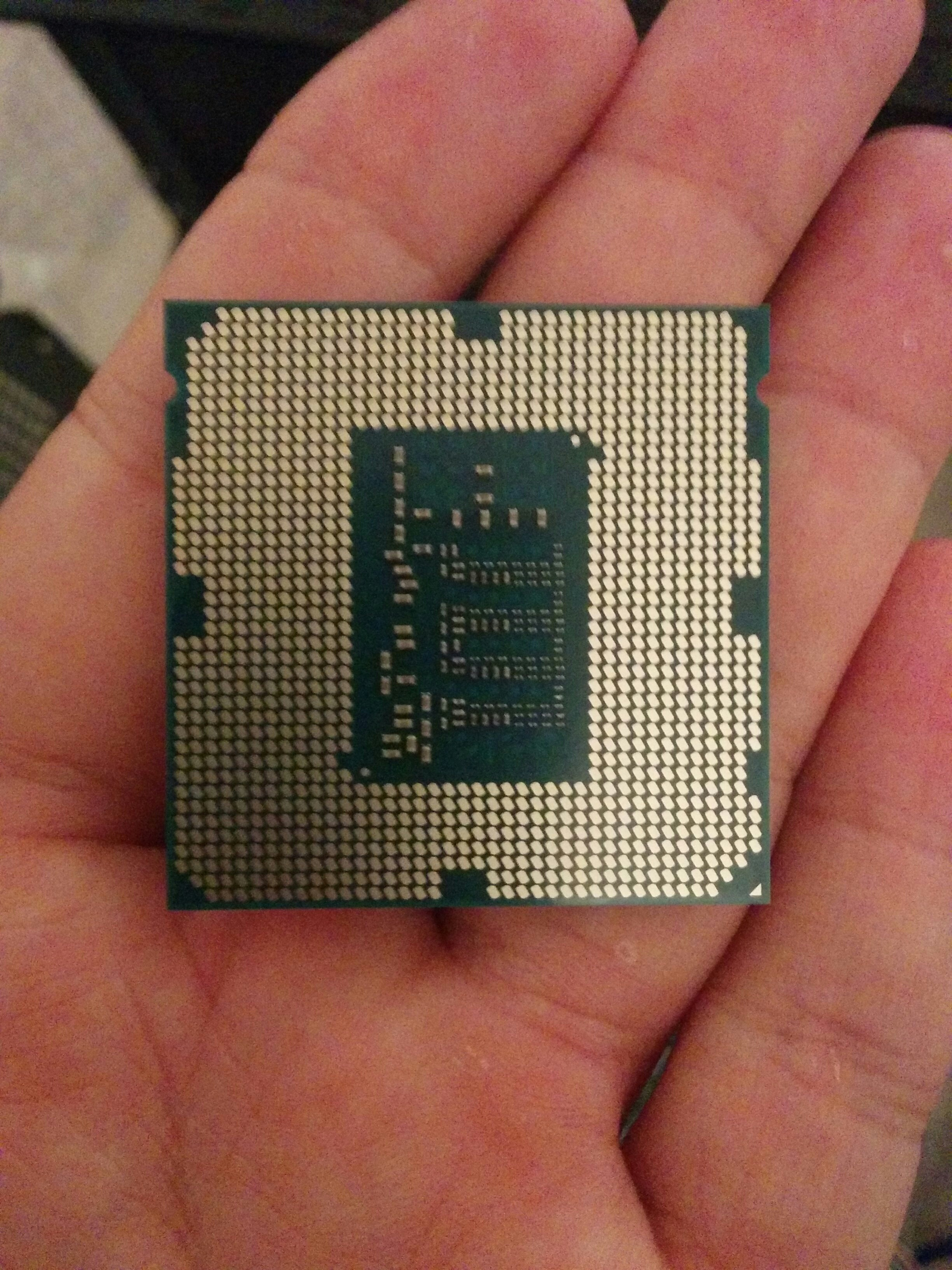 Back side (pins) of Intel Xeon E3 1220v3